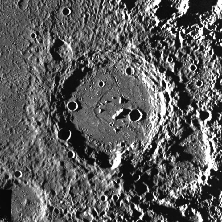 Brunelleschi crater, on Mercury. MESSENGER Wide Angle Camera mosaic. Image is approximately 237 km wide.